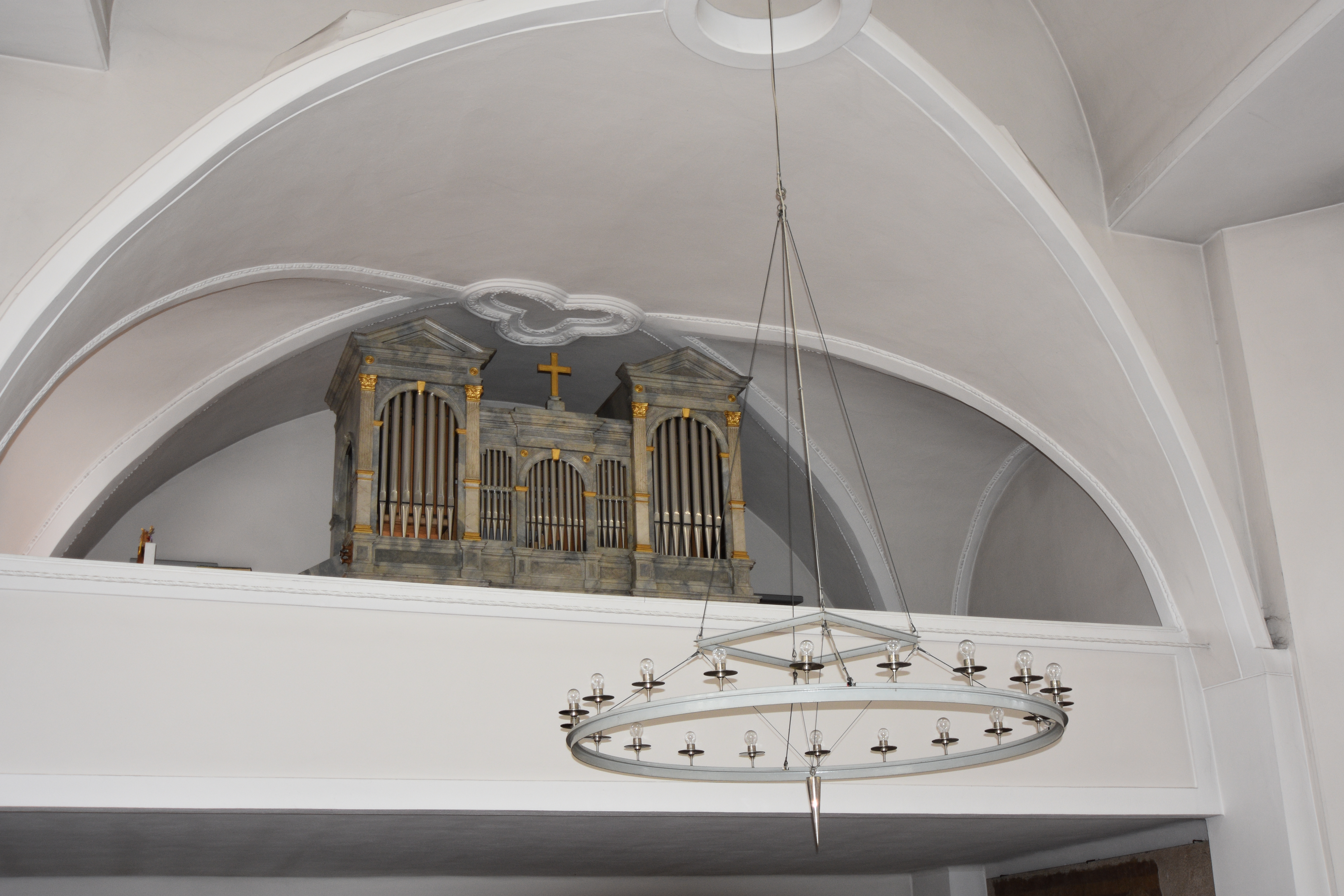 Pfarrkirche Edelsbach Interior